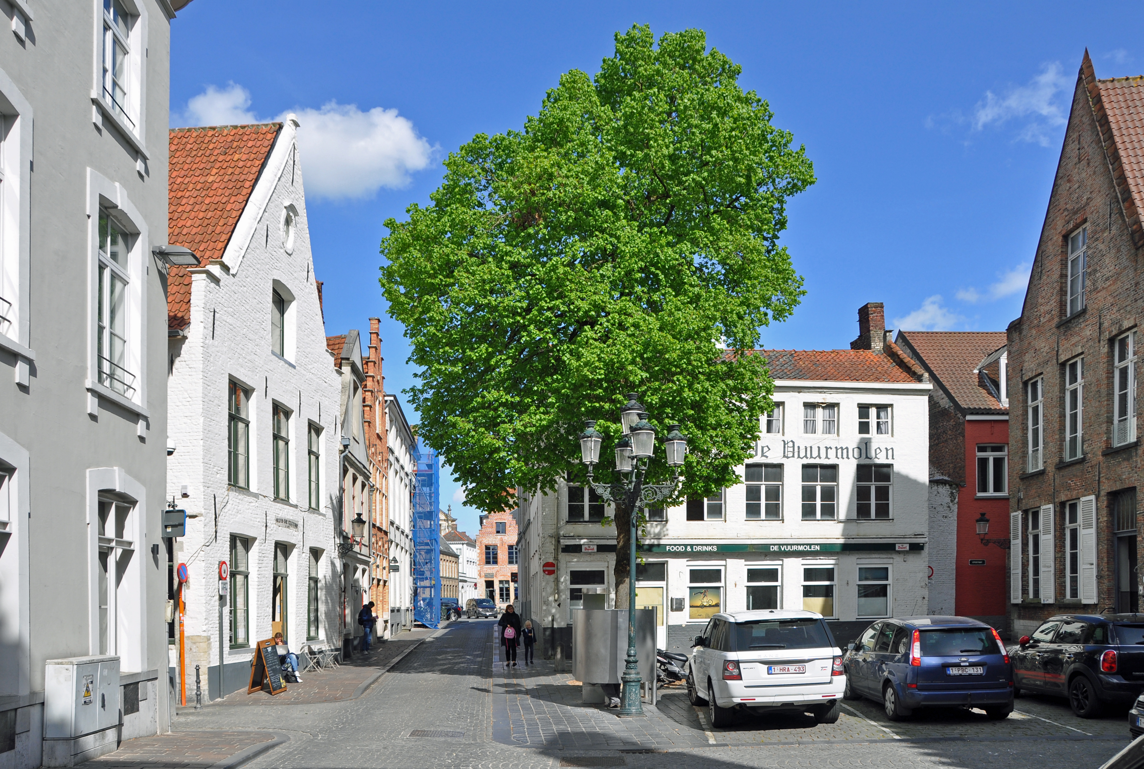 Bruges (Belgium): Kraanplein